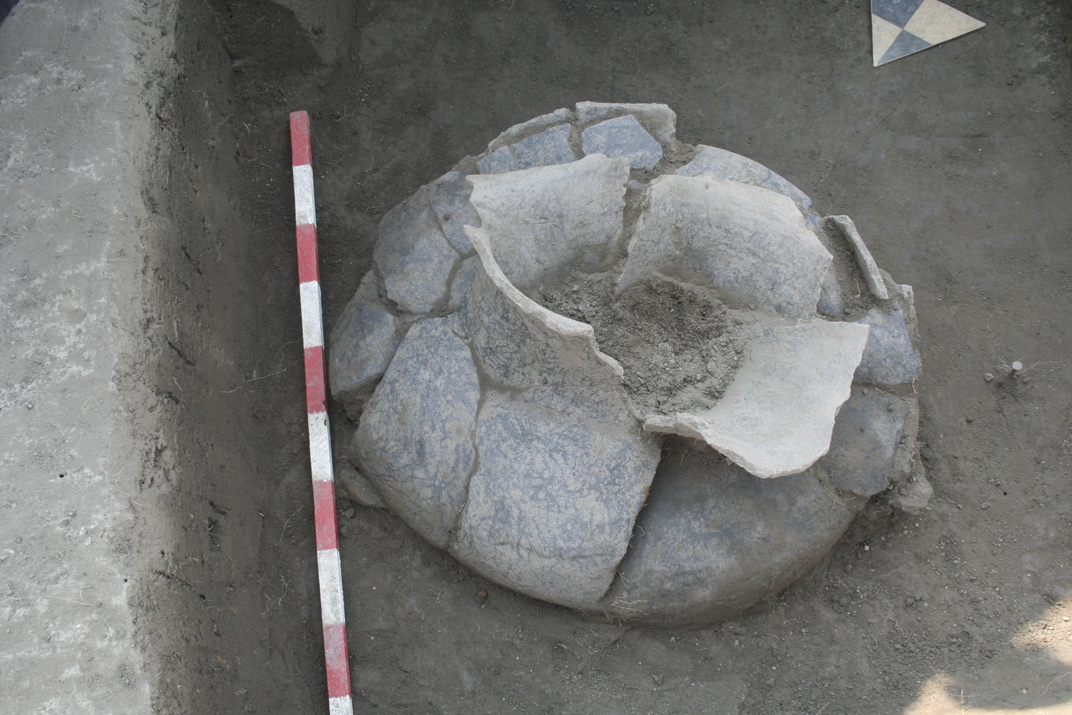 Vessel of the Gáva culture from Rotbav, Transylvania, Romania